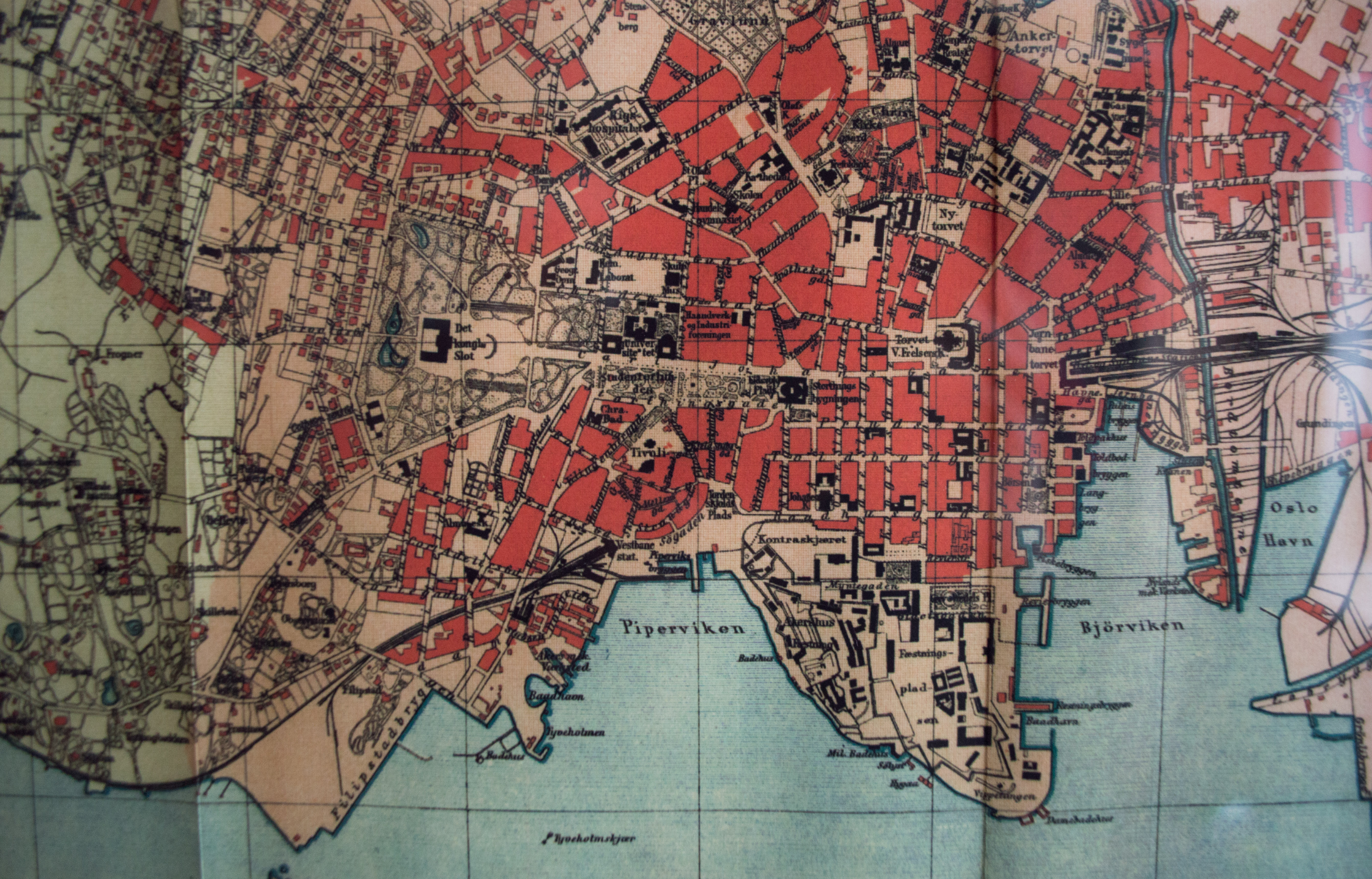 Detail of a map of Oslo from 1887.